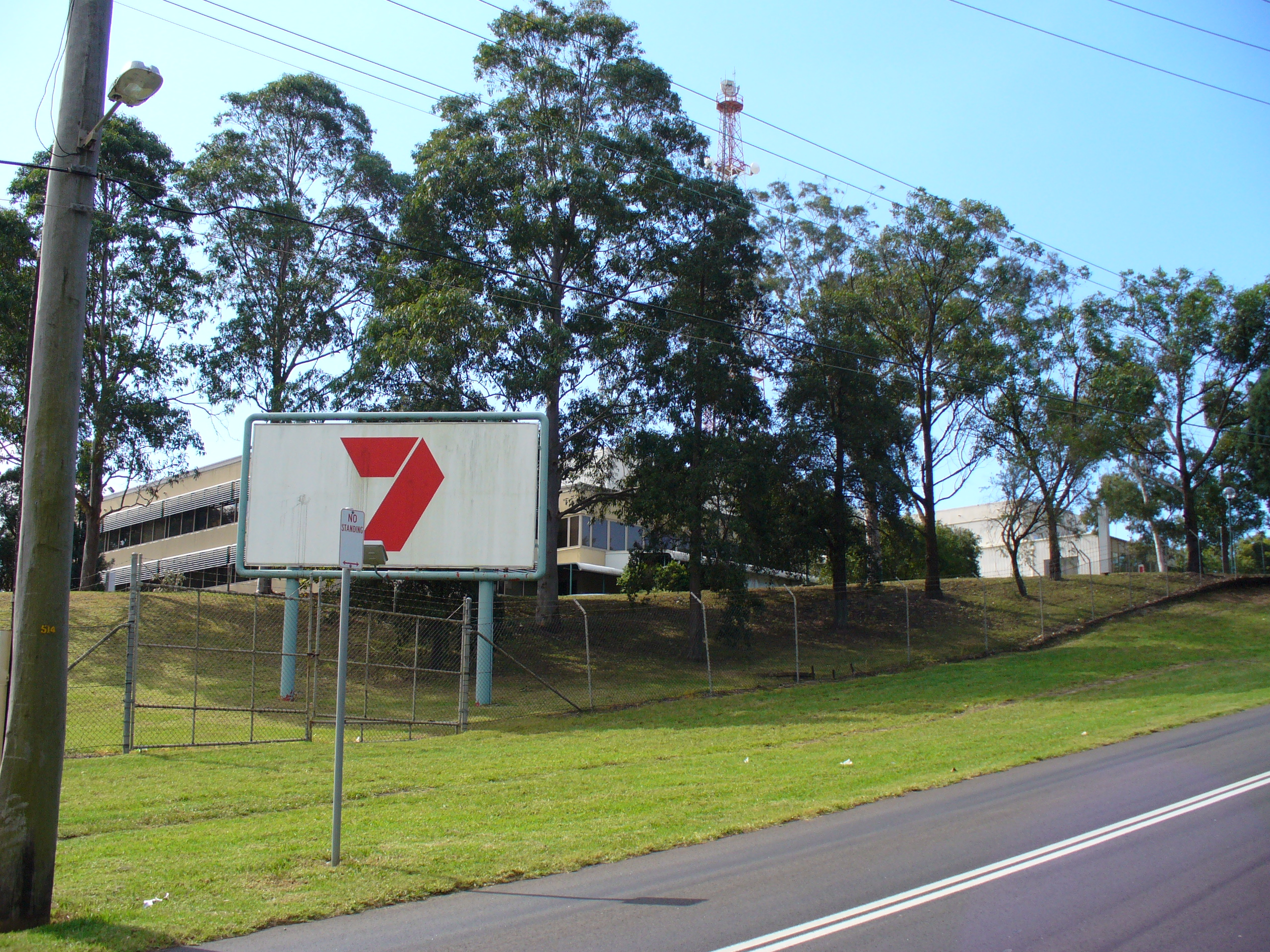 Seven Network site in Epping, New South Wales